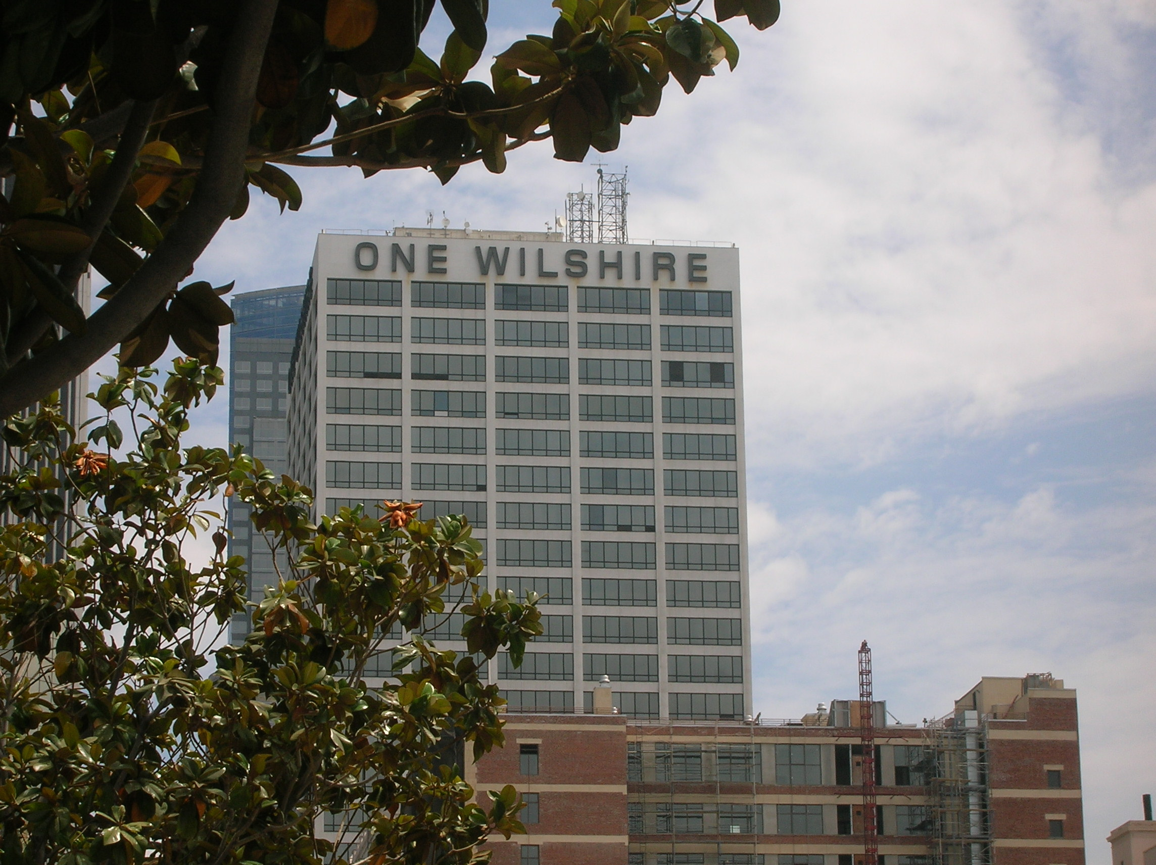 "One Wilshire" office tower — at the eastern end of Wilshire Boulevard at Figuroa, in Downtown Los Angeles.